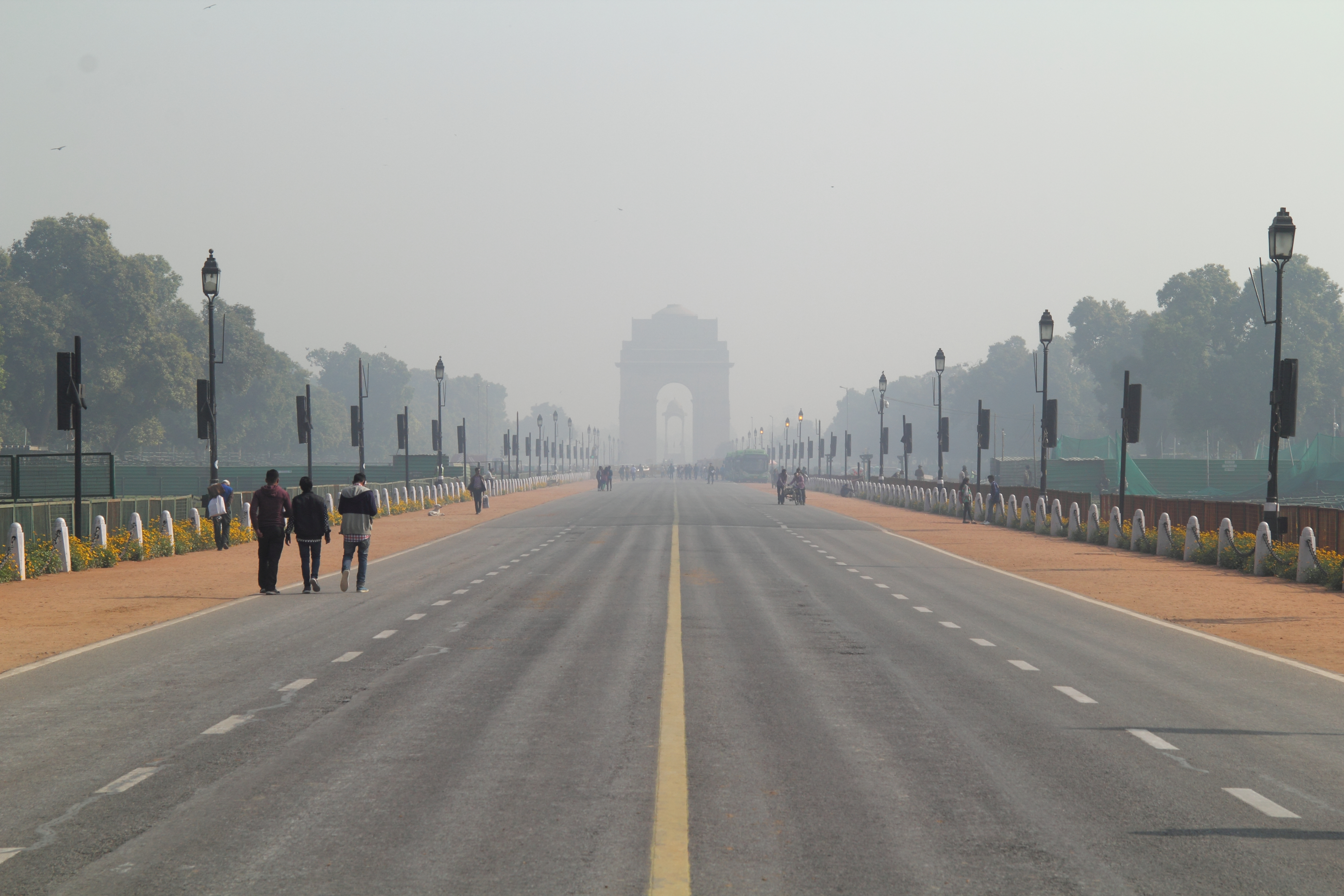 New Delhi, India: India Gate